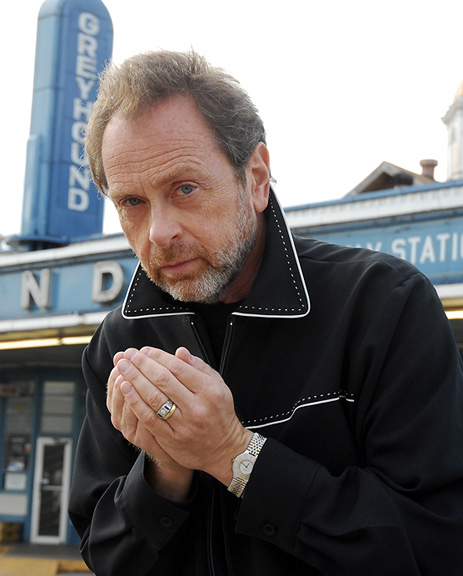 Henry Gross, musician, outside the Greyhound bus station in Jackson, Tennessee, USA.